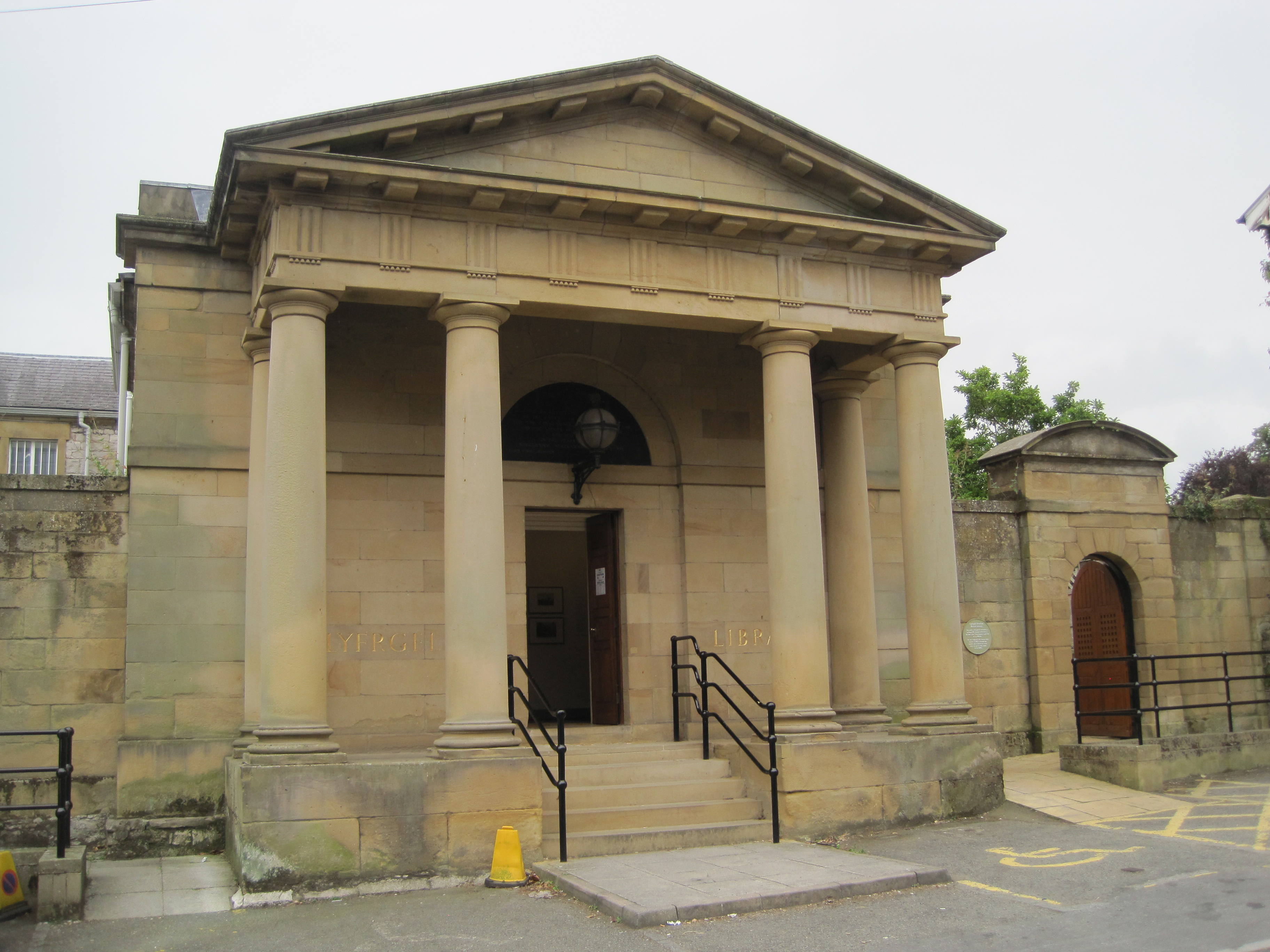 Town of Ruthin, Denbighshire, Wales. The old court; today - a library.